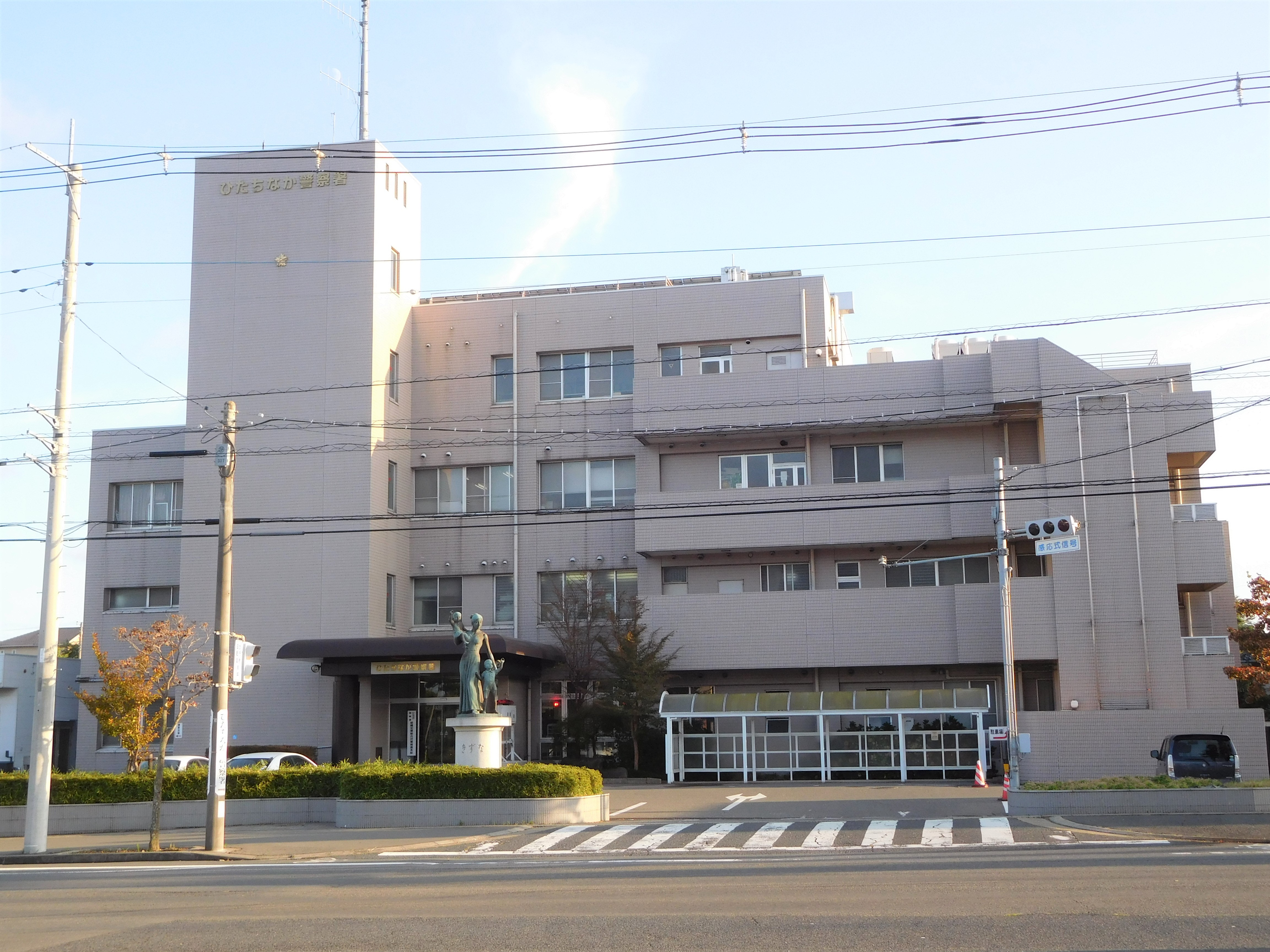 This is Hitachinaka Police Station in Hitachinaka, Ibaraki, Japan.